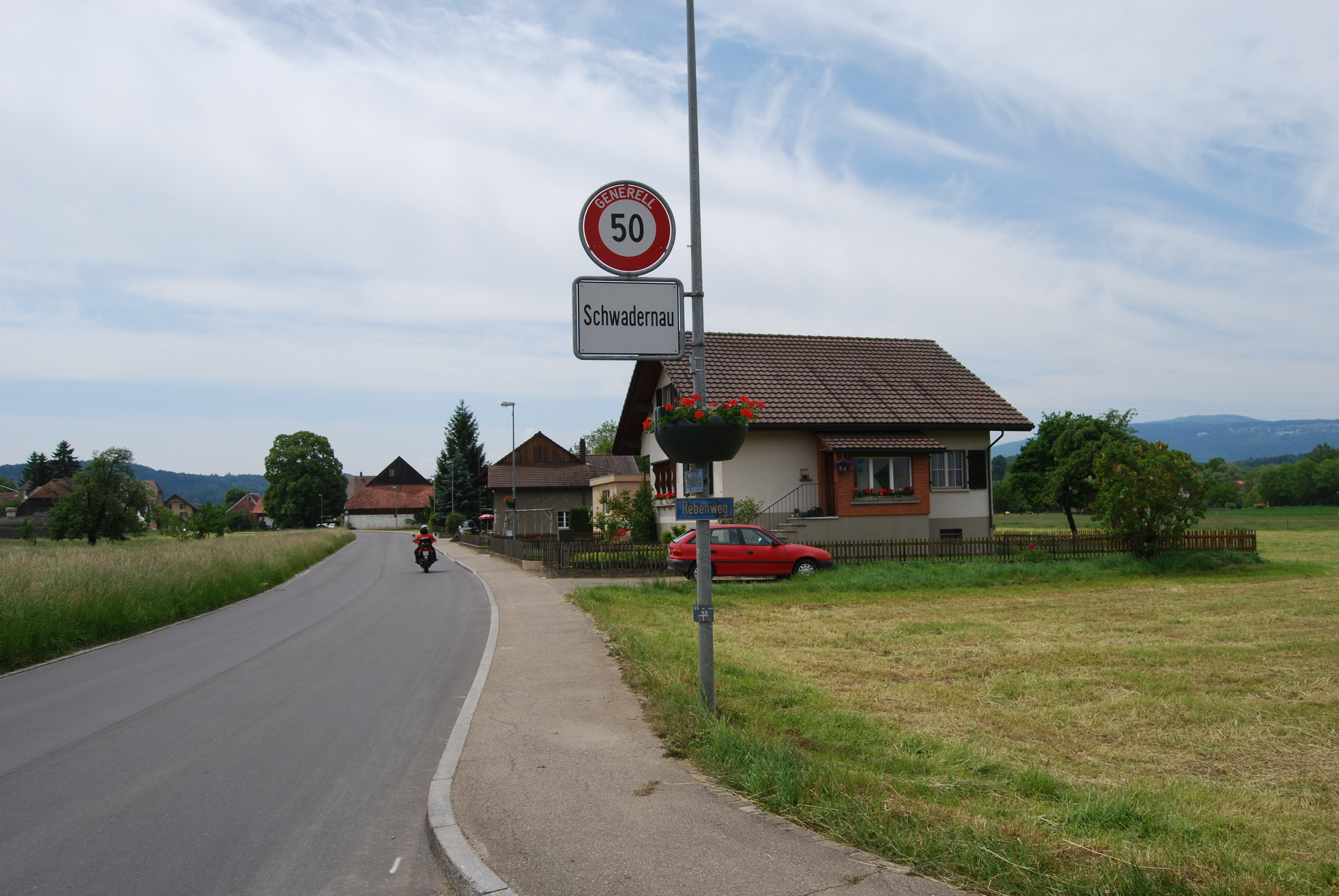 Schwadernau, canton of Bern, SwitzerlandEsperanto: Schwadernau, Kantono Berno, Svislando